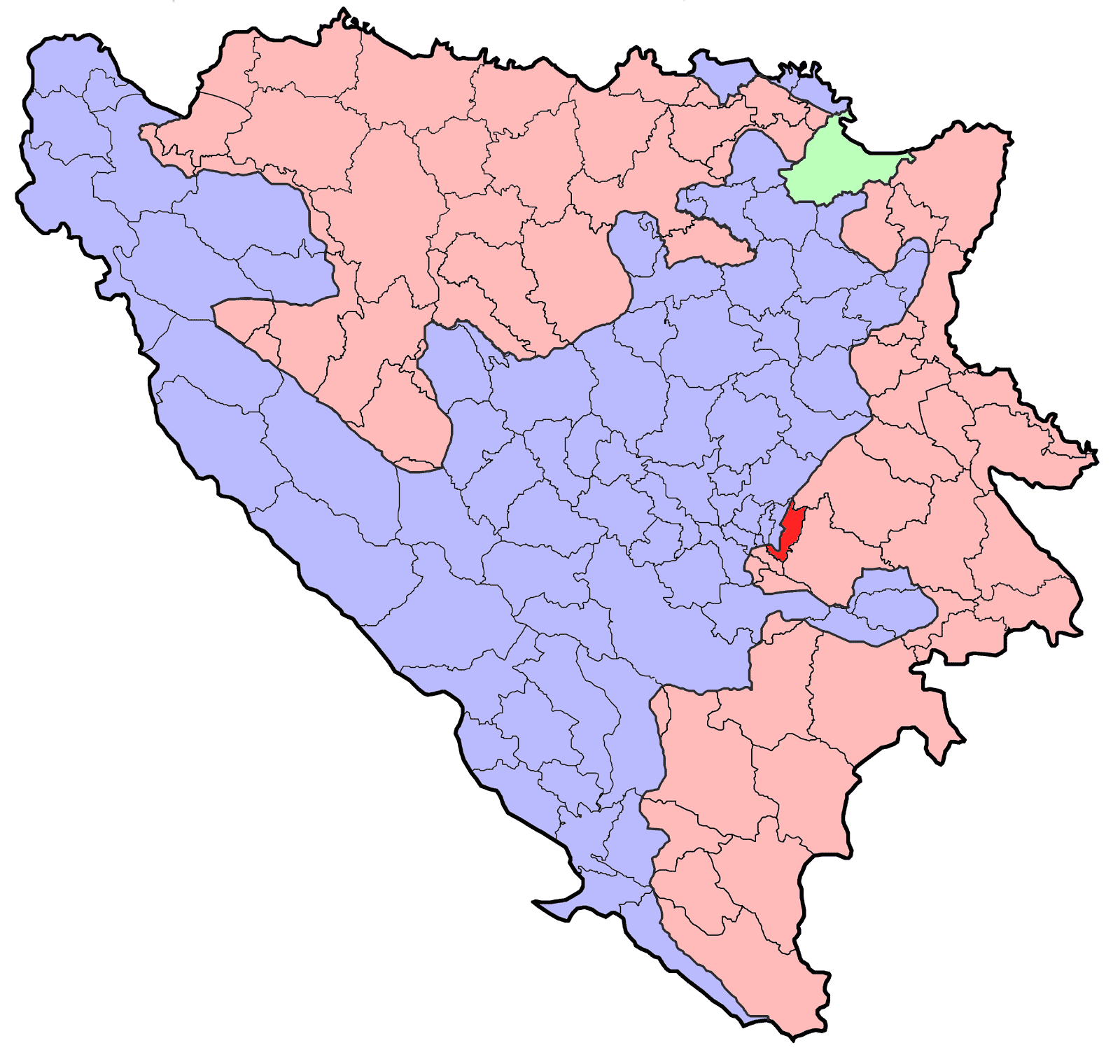 Location of Istočni Stari Grad municipality in Bosnia and Herzegovina.